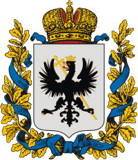 Coat of Arms of Chernigov Governorate, Russian Empire